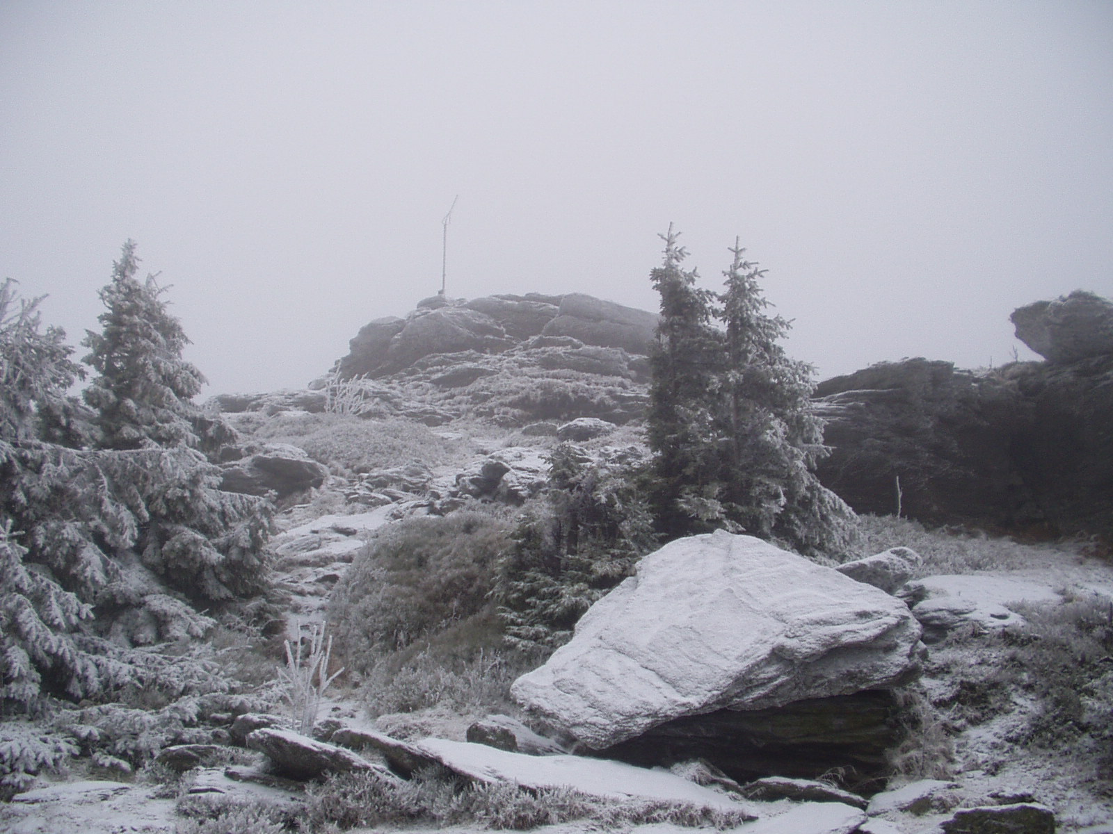 Volovec (skalisko) near Roznava (no in High Tatras!)